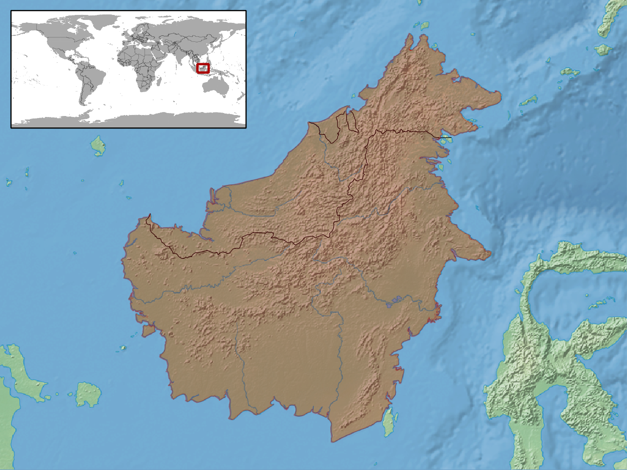 geographic distribution of Ptychozoon horsfieldii (Native: Brunei Darussalam; Indonesia (Kalimantan); Malaysia (Sabah, Sarawak))